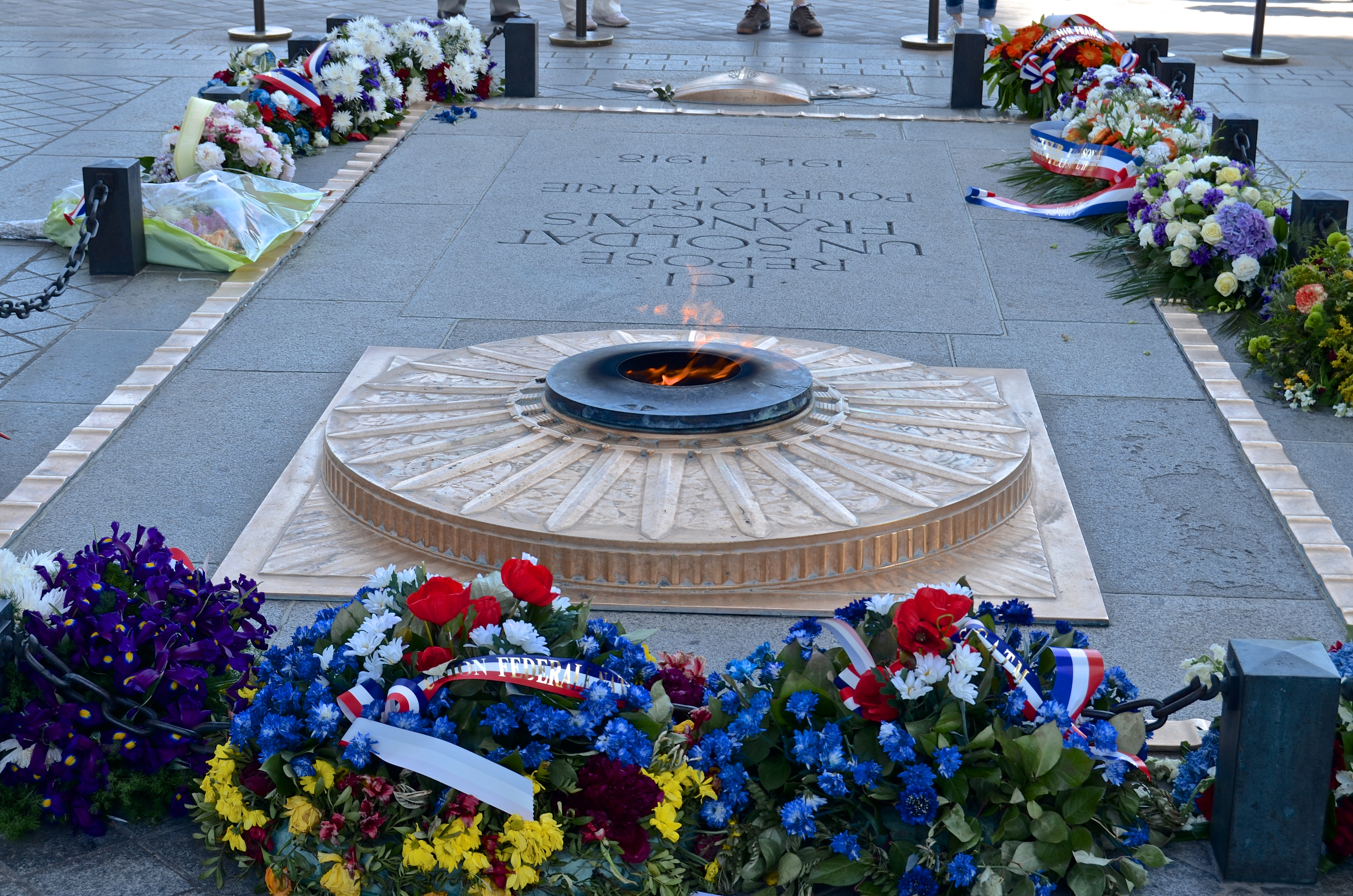 Eternal Flame, Arc de Triomphe